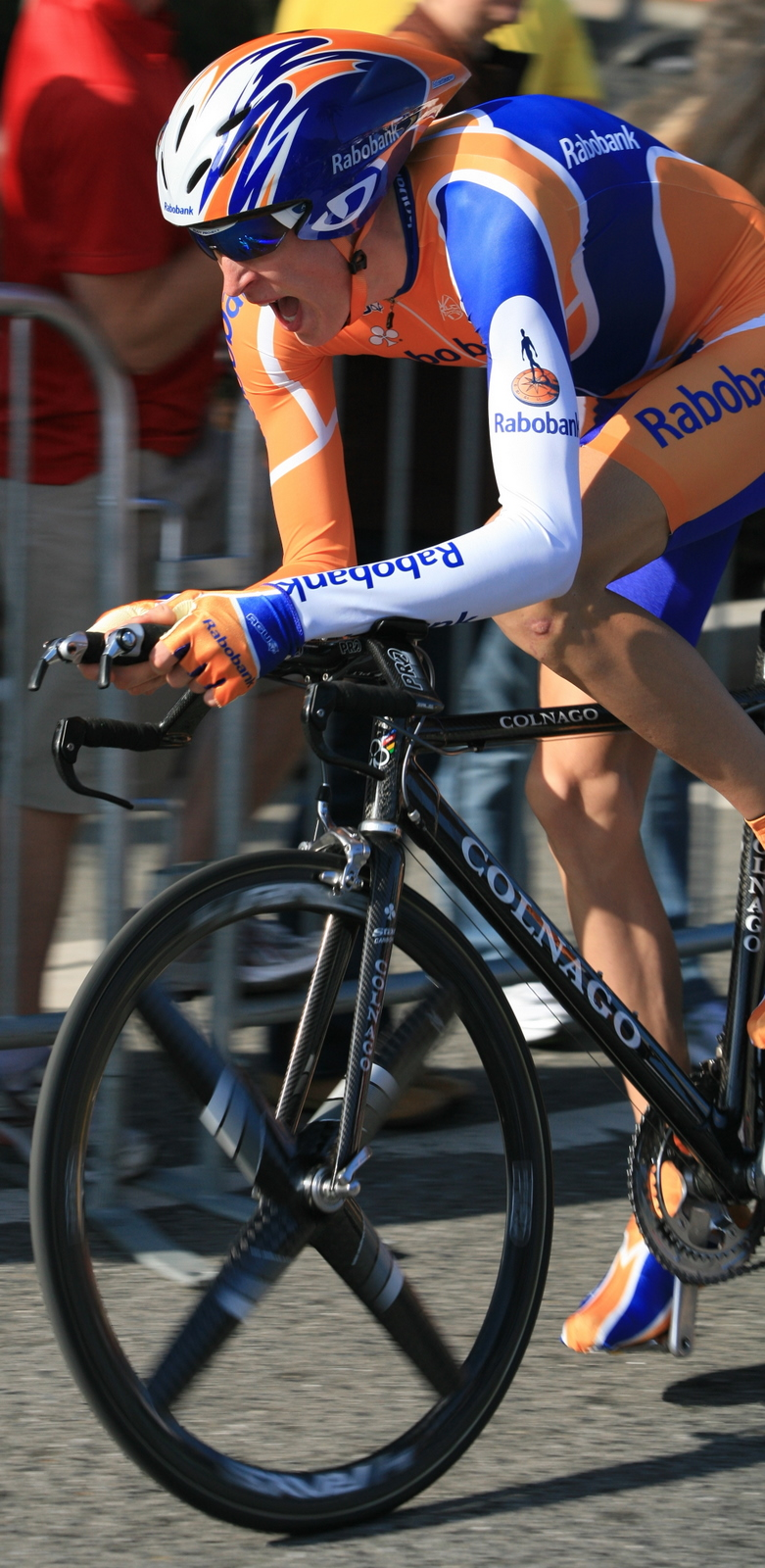 Robert Gesink at the Prologue of the Tour of California in Palo Alto